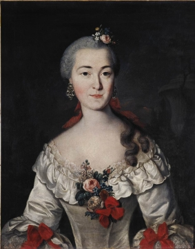 Maria Ivanovna Mamonova, née Tatischeva (1730s – ca. 1794)